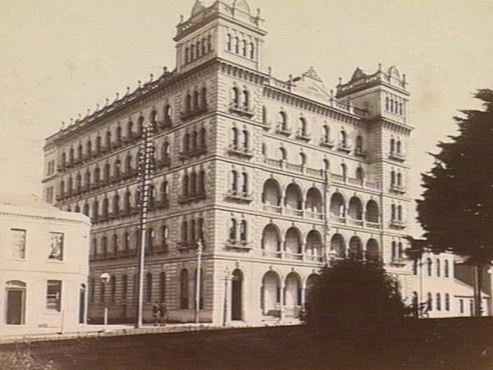 Windsor Hotel Melbourne from Treasury Place in 1883